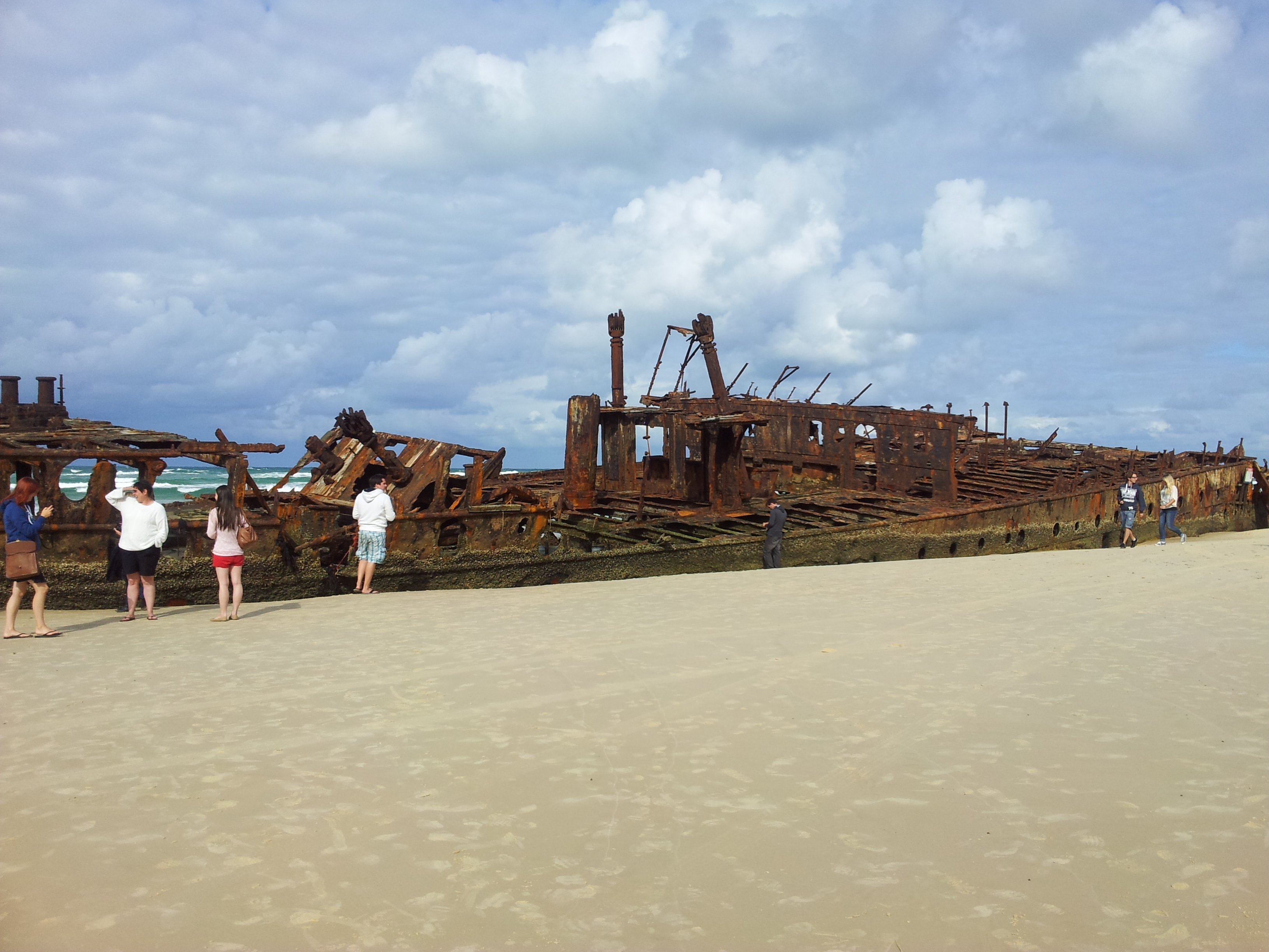 Shipwreck of the Maheno on Fraser Island, Queensland